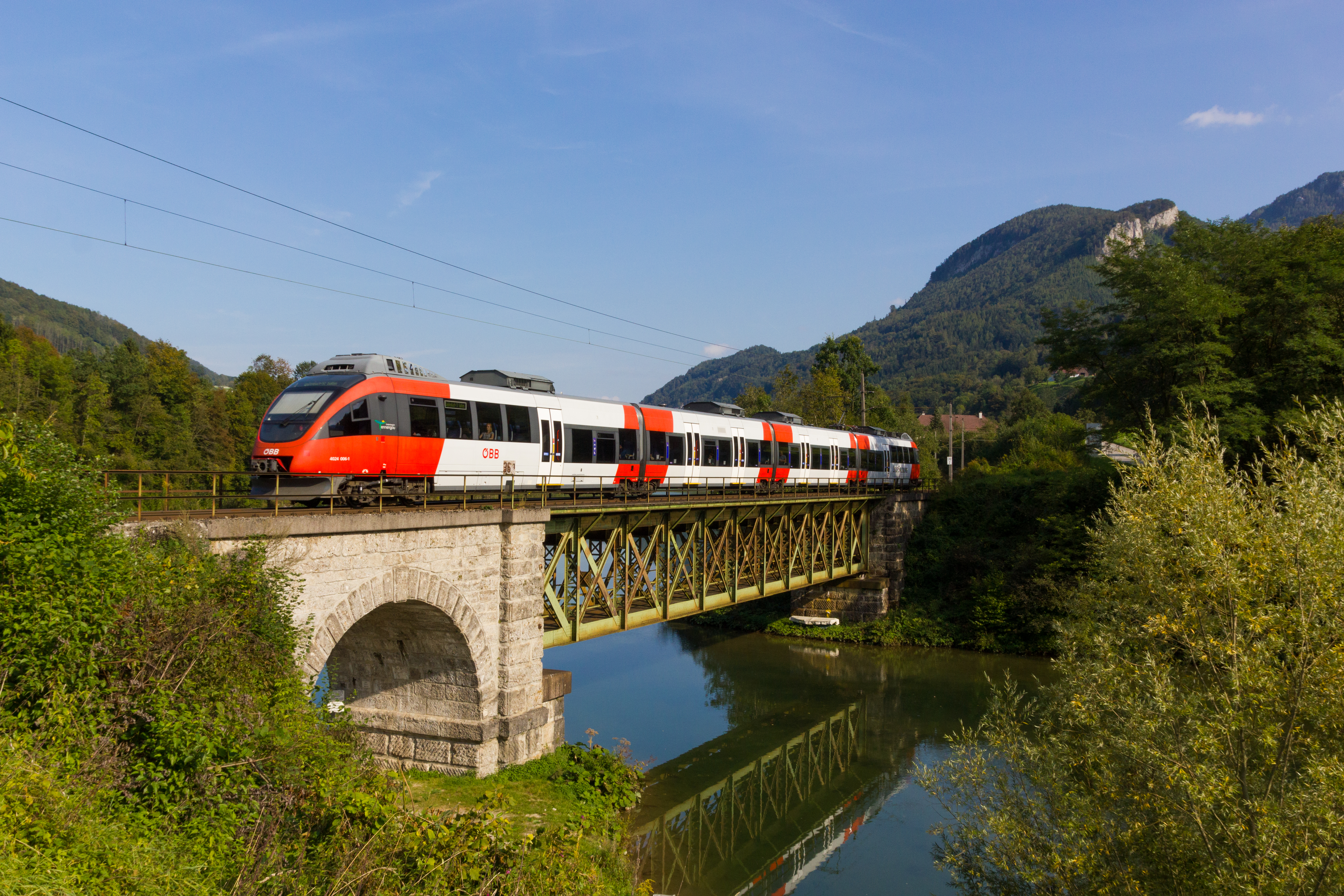 ÖBB 4024-006 at the Bridge over the stream Trattenbach.